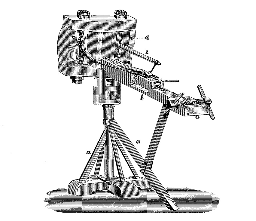 Euthytonon, an ancient light, single-arm torsion catapult throwing bolts (Martin Fickelscherer, Das Kriegswesen der Alten (1888). Published by E. A. Seemann, Leipzig (book contributor: University of Chicago)